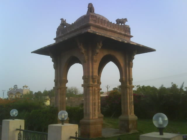 A Historical place Nani Ba Vaav